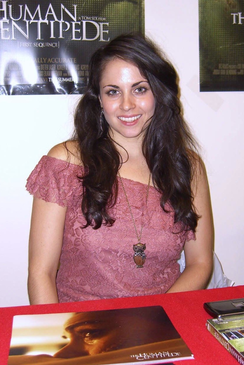 Actor Ashley C. Williams at the Big Apple Convention in Manhattan, October 1, 2010. This photo was created by Luigi Novi. It is not in the public domain, and use of this file outside of the licensing terms is a copyright violation.